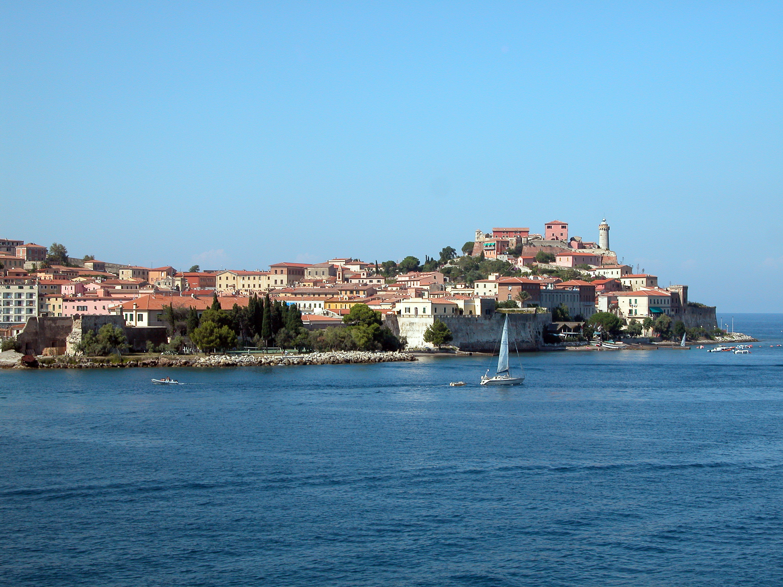 Arrival at Portoferraio from Piombino